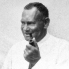 The German entrepreneur, arts collector and patron of the arts Alfred Hess of Erfurt, Thuringia, Germany.